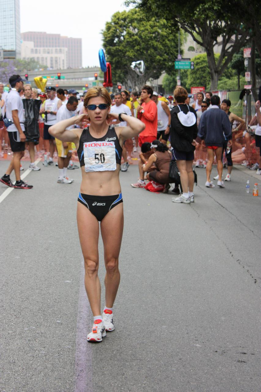 Nuta Olaru, the 38-year-old from Craiova, Romania prepares for her fourth Los Angeles Marathon.